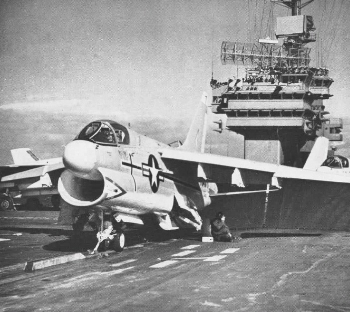 A Vought A-7A Corsair II during carrier trials aboard the U.S. aircraft carrier USS America (CVA-66).